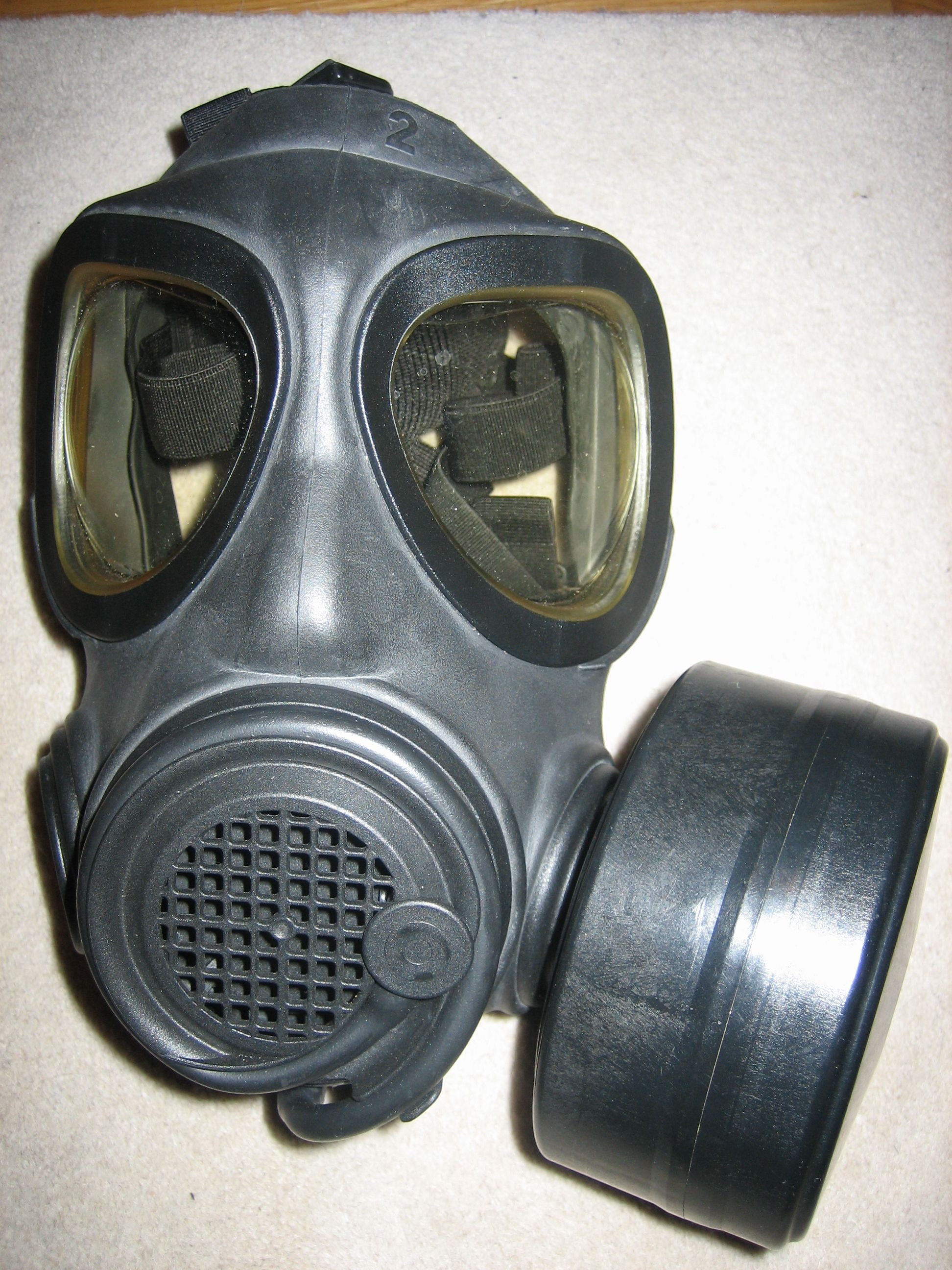 Swedish NBC protection mask: Skyddsmask 90